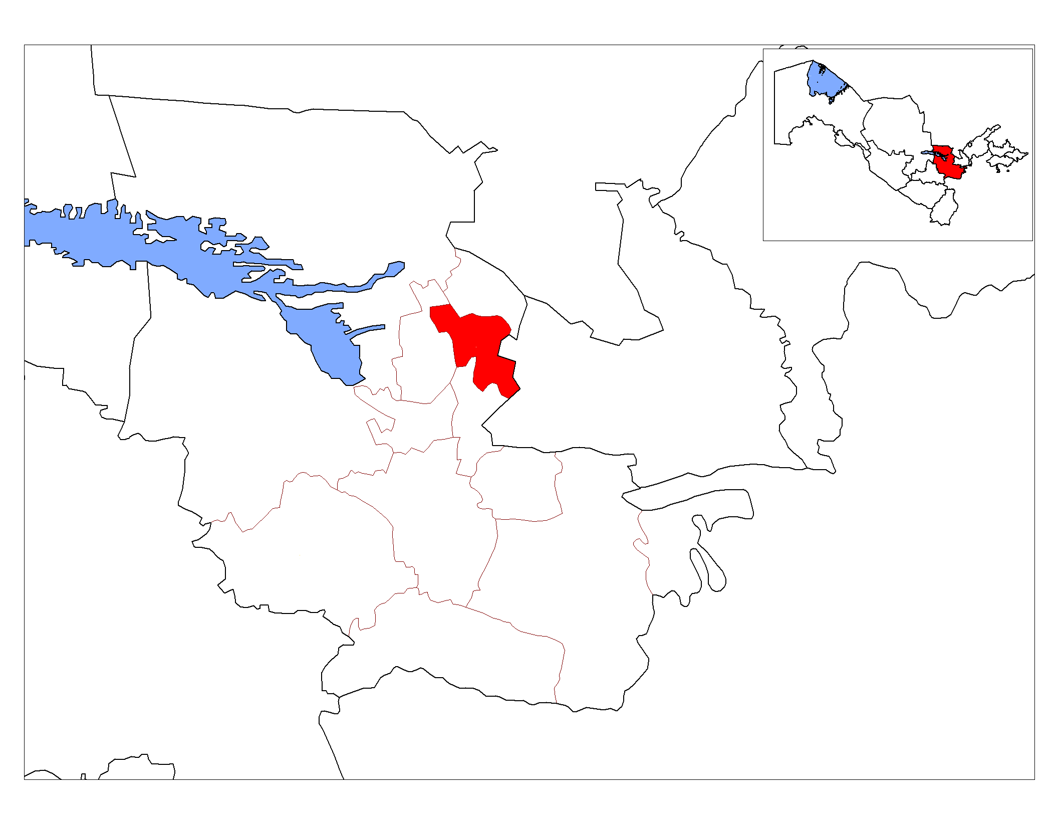 Location map of Do’stlik District in Jizzax Province, Uzbekistan